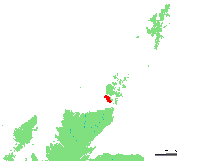 VK Hoy.PNG (Orkney and Shetland islands, UK)